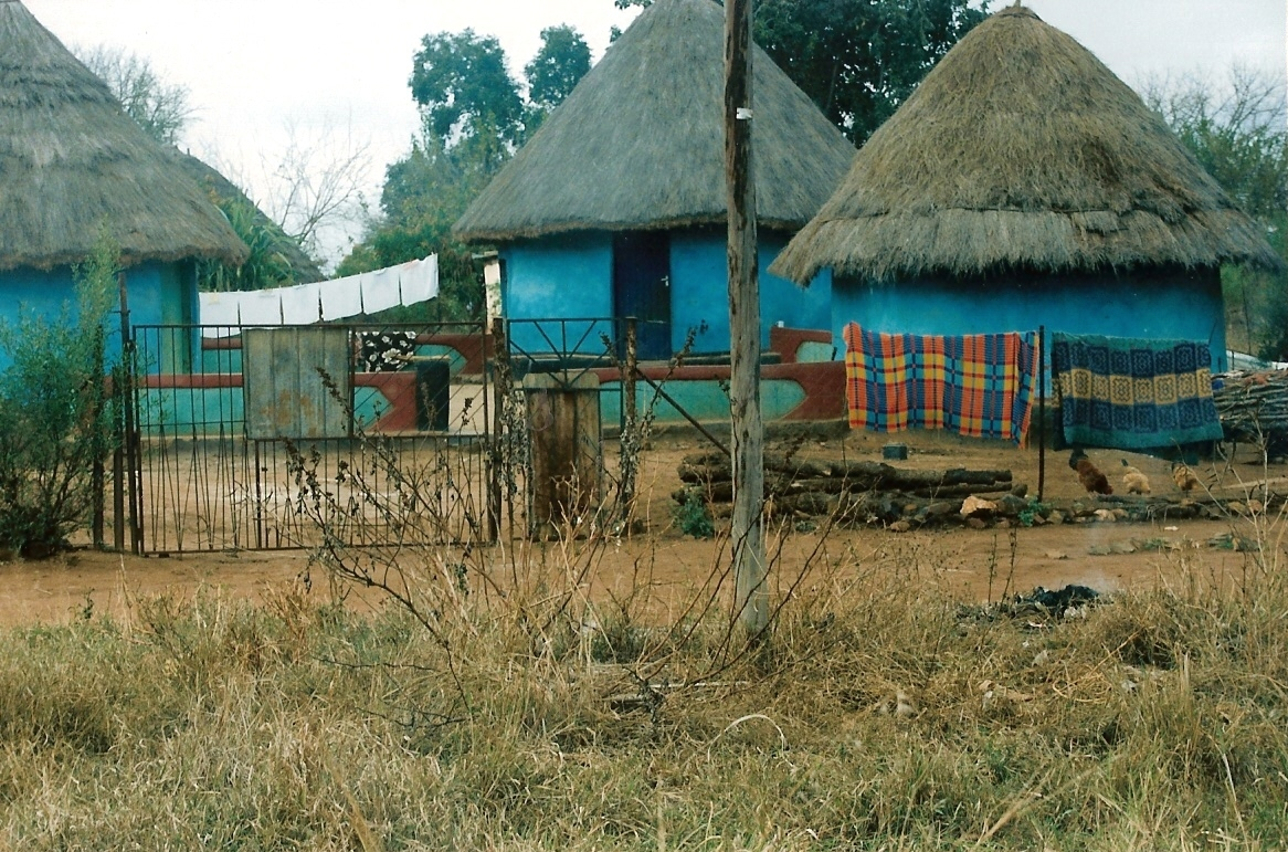 Venda huts